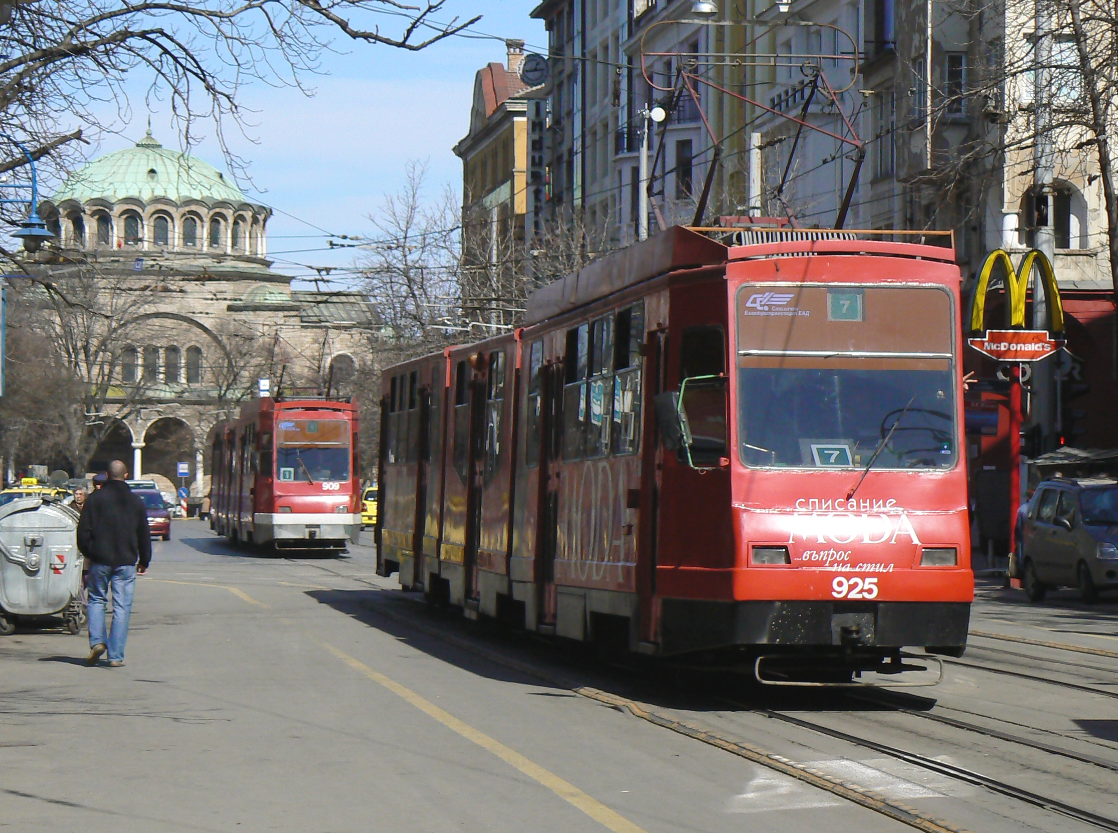 Trams in Sofia on Vitoshka Boulevard. At the rear: Church "Sveta Nedelya"